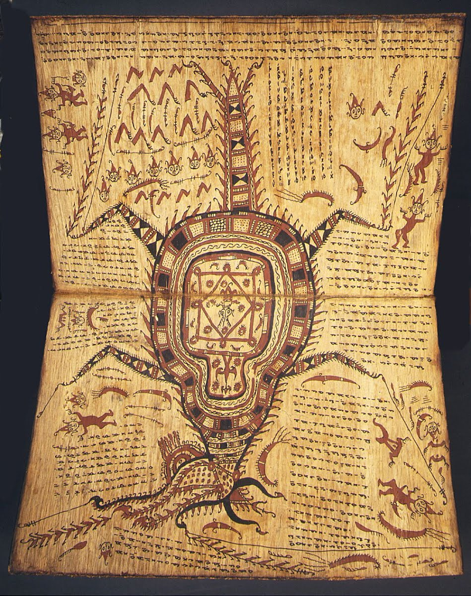 interior of great pustaha in tropenmuseum